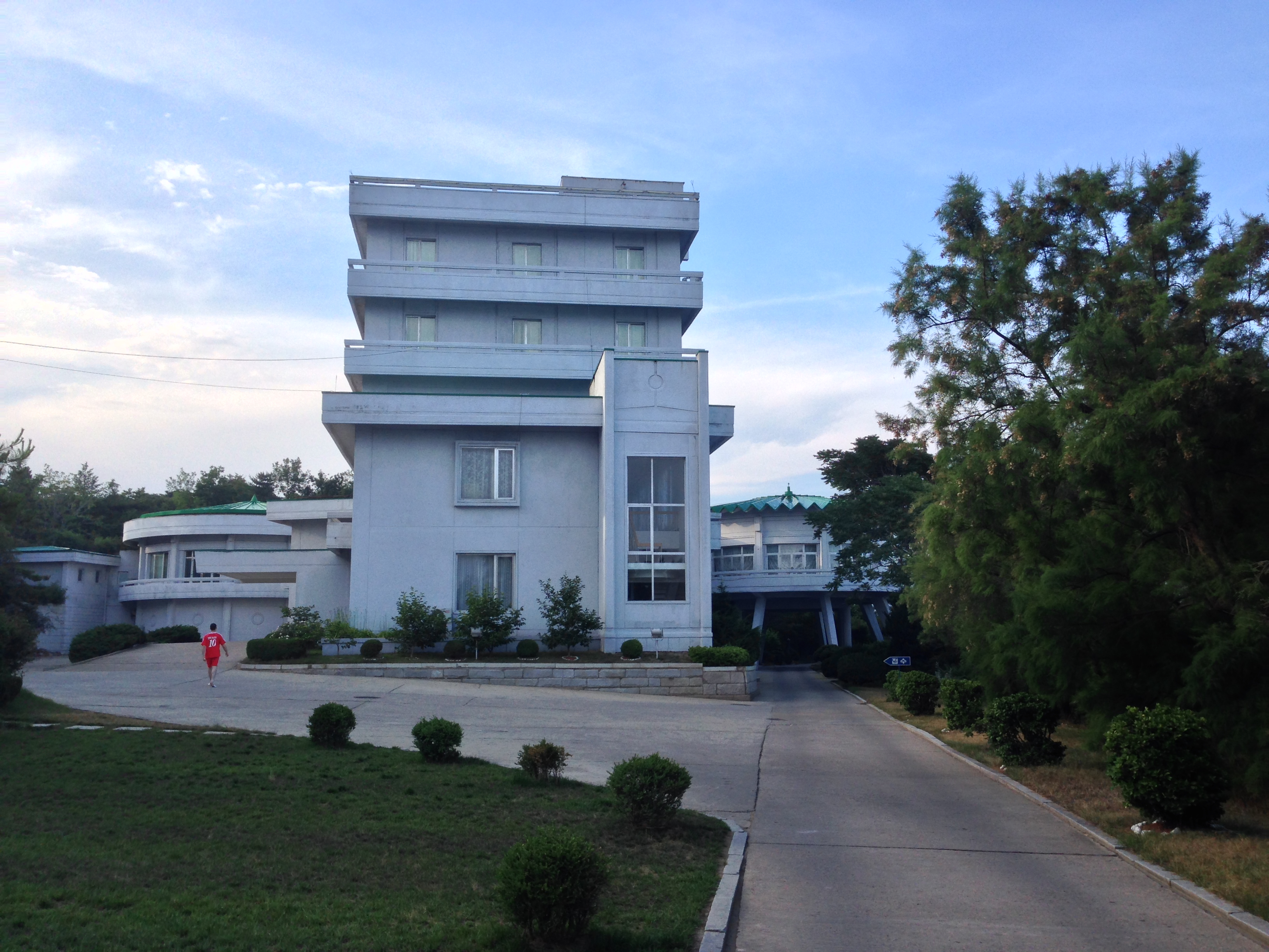 Majon Beach Guest House, DPRK